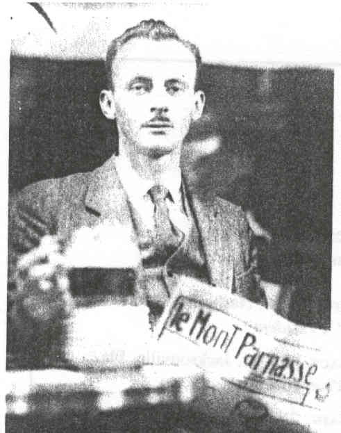 Jeb Alexander